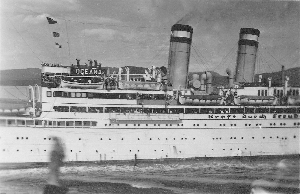 KDF passenger ship Oceana